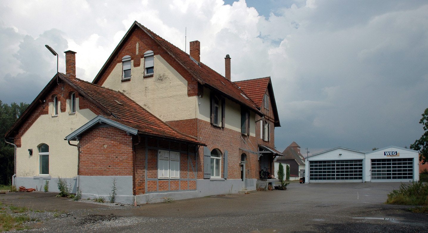 former station building and surroundings of lower Kocher valley rail line in Neuenstadt am Kocher